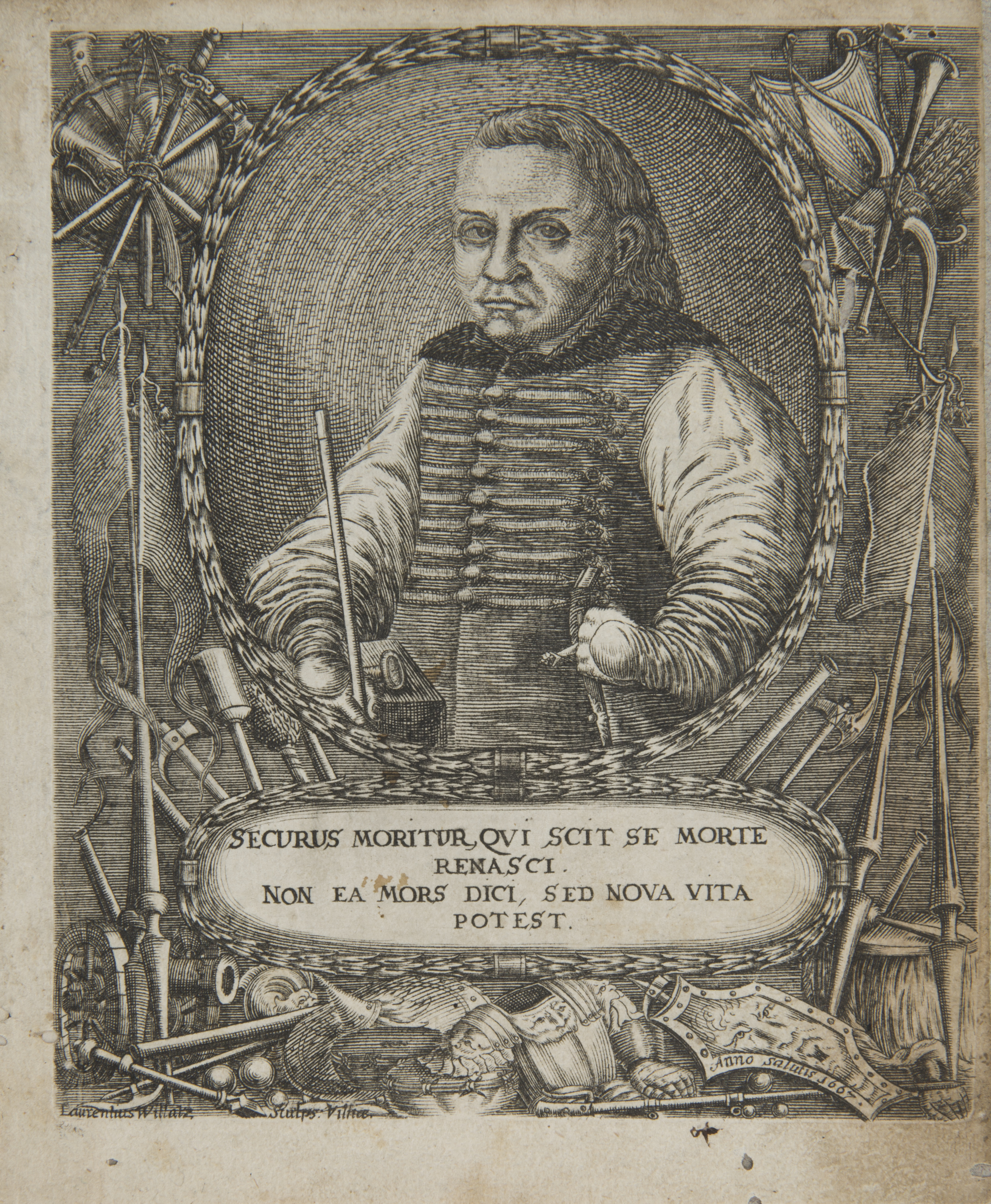 kazimierz Lew Sapieha anonymous plate before 1656